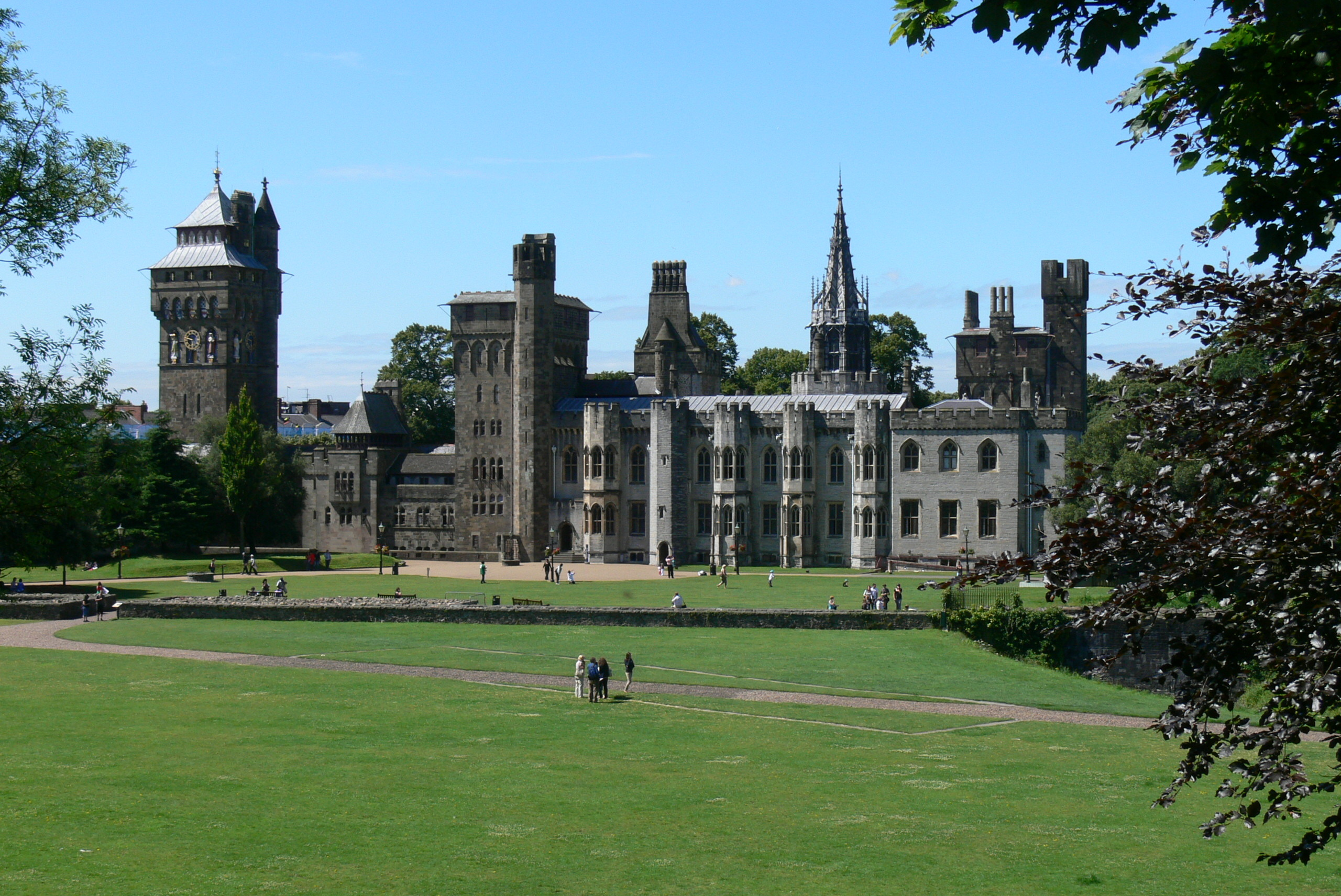 Cardiff castle ( Wales ). Gothic revival palace ( 1869 ).